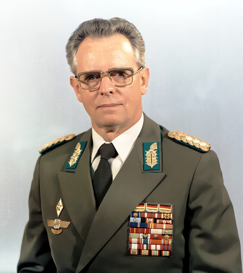 Wolfgang Reinhold, here as Colonel general, assistant minister and commanding general of the National People’s Army Air Force/Air Defence Force.